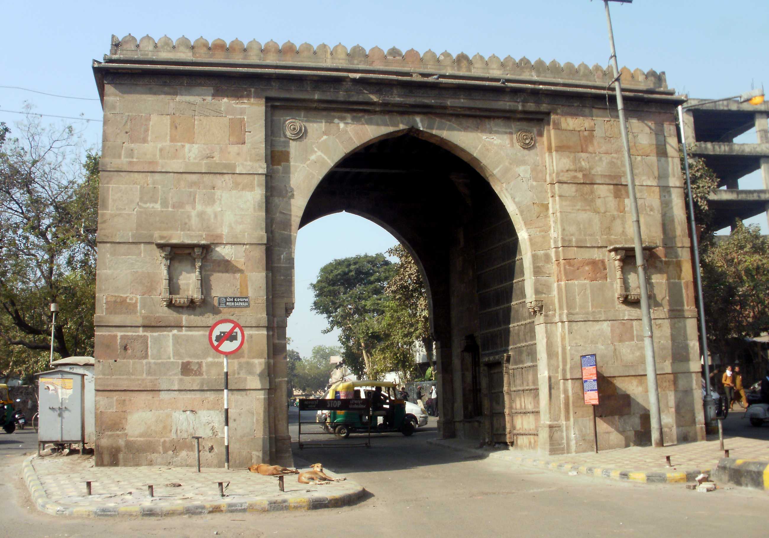 Prem Darvaja